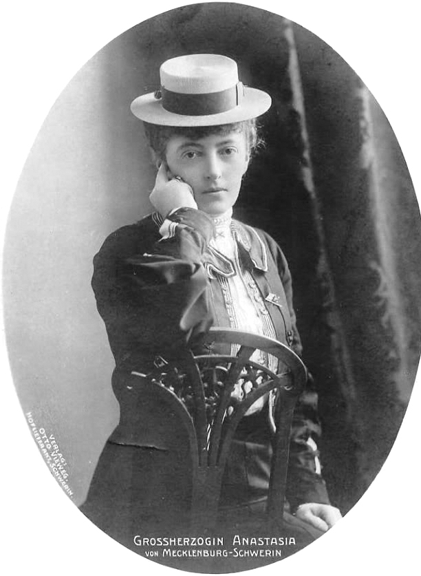 Grand Duchess Anstasia Mikhailovna of Russia